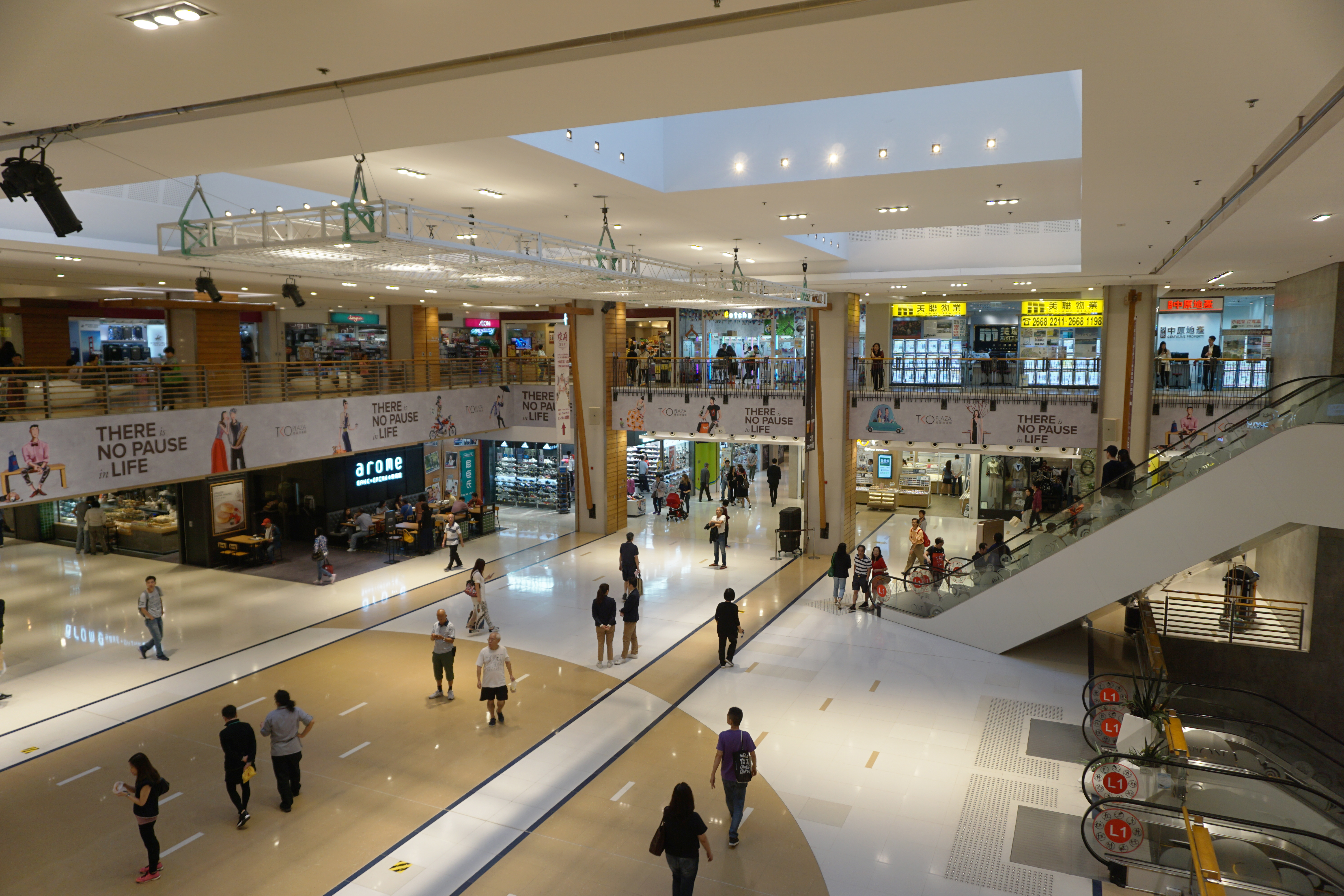 Tseung Kwan O Plaza in Tseung Kwan O, Hong Kong.